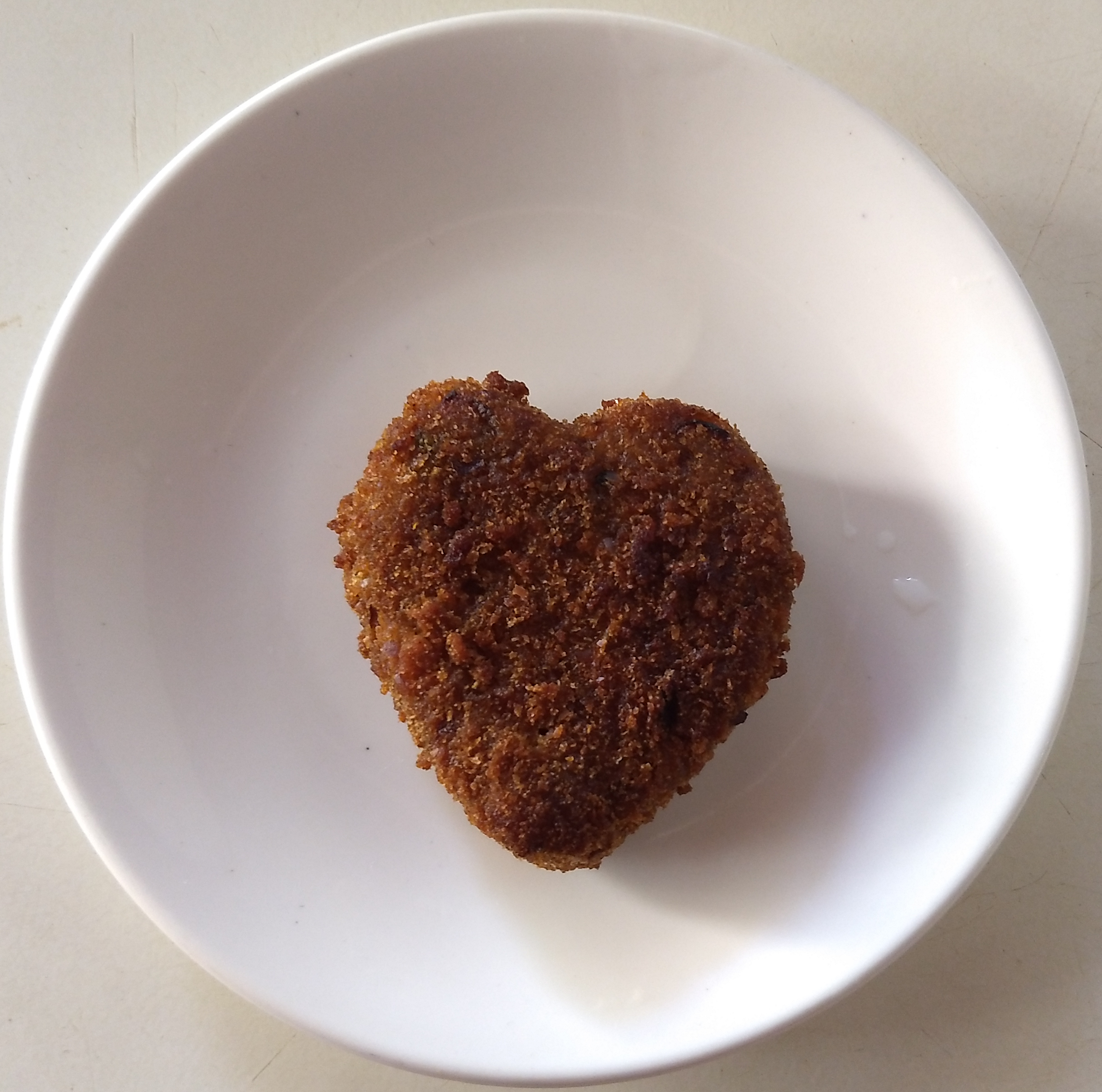 Heart-shaped vegetable cutlet from Kozhikode Medical College Canteen, Kerala This photo has been taken in the country: India